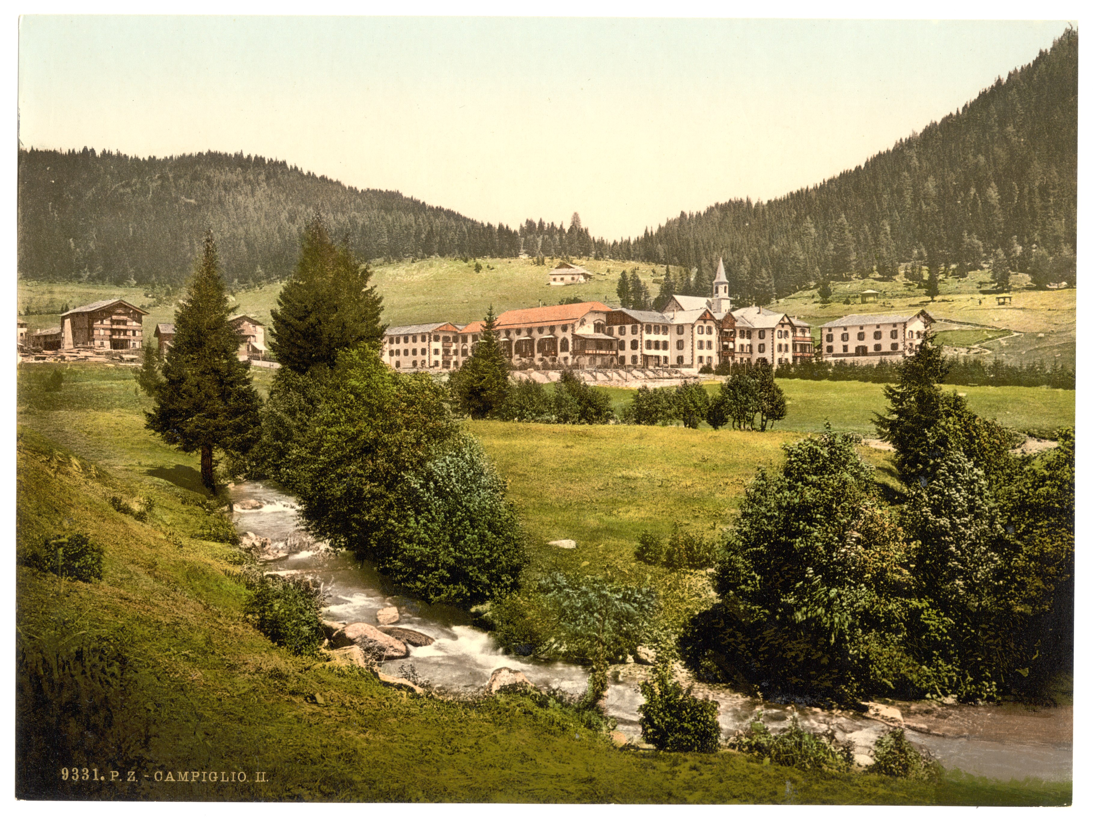 Forms part of: Views of the Austro-Hungarian Empire in the Photochrom print collection.; Title from the Detroit Publishing Co., Catalogue J-foreign section, Detroit, Mich. : Detroit Publishing Company, 1905.; Print no. "9331".